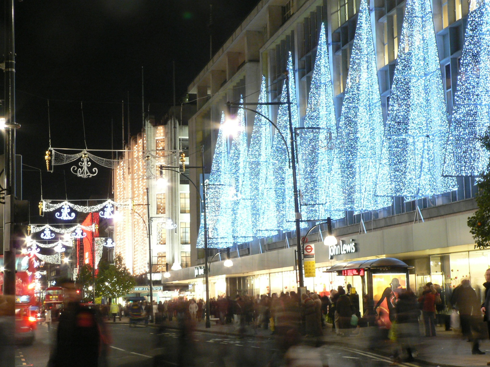 Christmas Light Up at John Lewis, Oxford Street